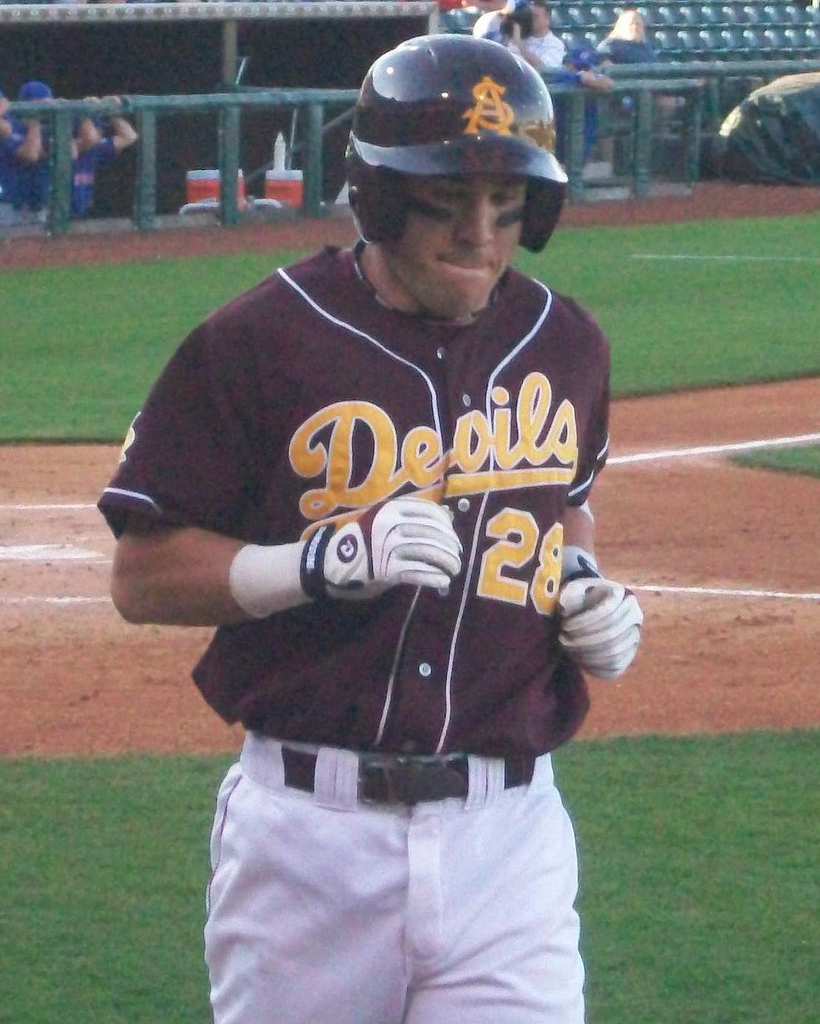 Jason Kipnis, Arizona State University baseball